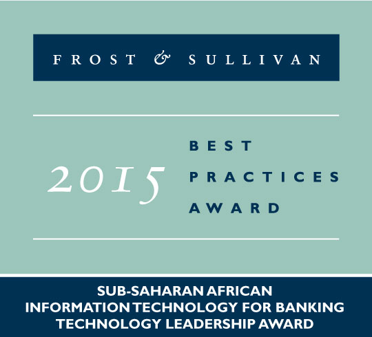 iVeri Frost & Sullivan Award